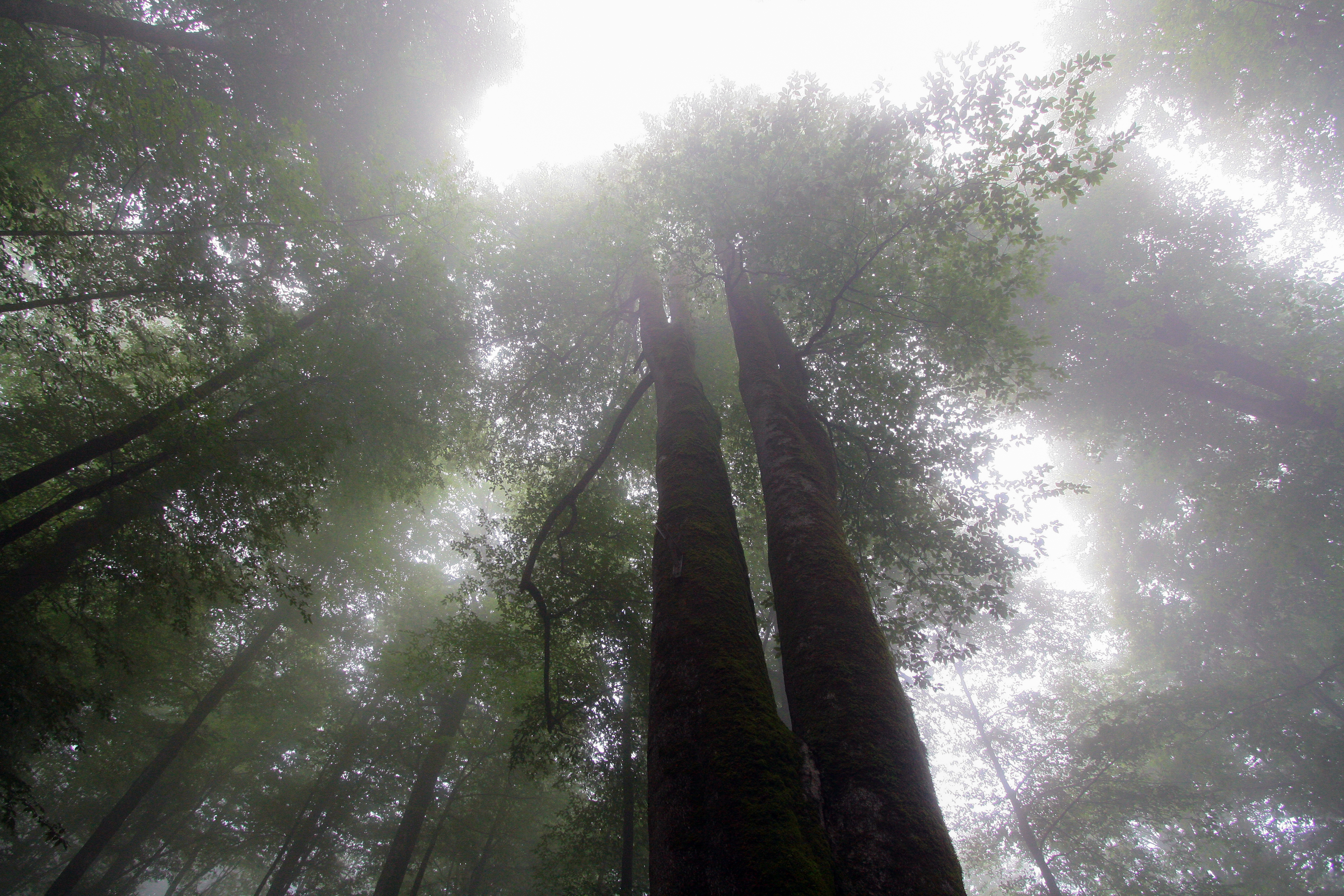 Shahrak-e Namak Abrud (Persian: شهرك نمك ابرود, also Romanized as Shahrak-e Namak Ābrūd; also known as Namak Abrood, Namak Ābrūd, Namak Ābrūd Sar, and Namakrūd Sar)is a village in Kelarestaq-e Gharbi Rural District, in the Central District of Chalus County, Mazandaran Province, Iran. At the 2006 census, its population was 354, in 71 families.